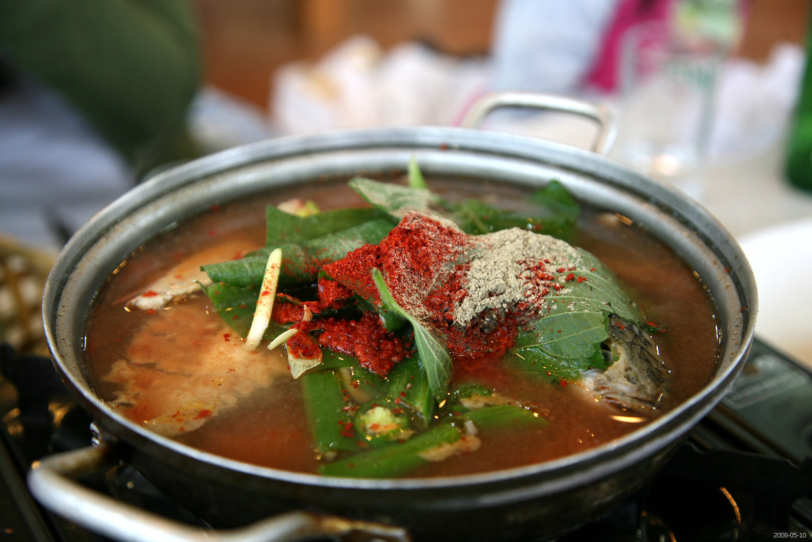 Gyeongju, North Gyeongsang province, South Korea